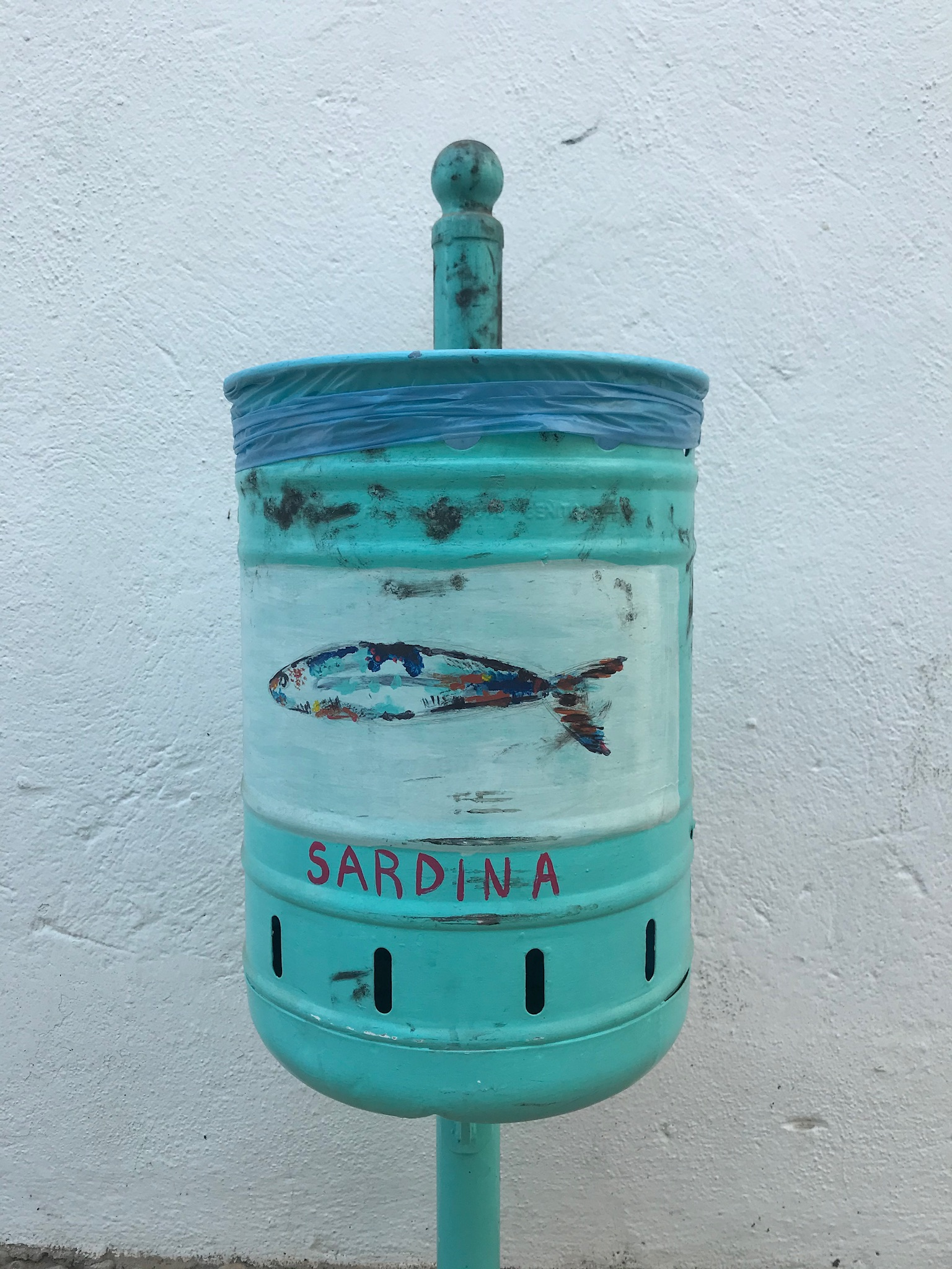 This photo has been taken in the country: Spain